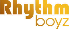 The logo of Rhythm Boyz Entertainment